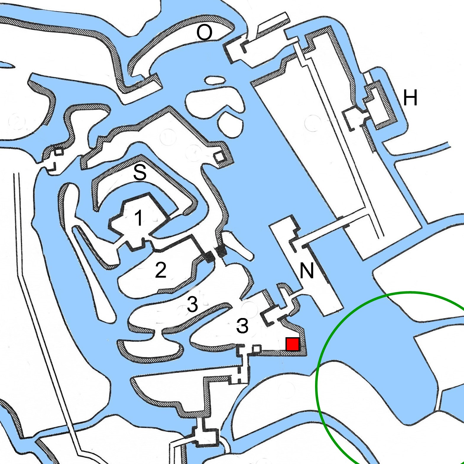 Map of original layout of Oshi castle